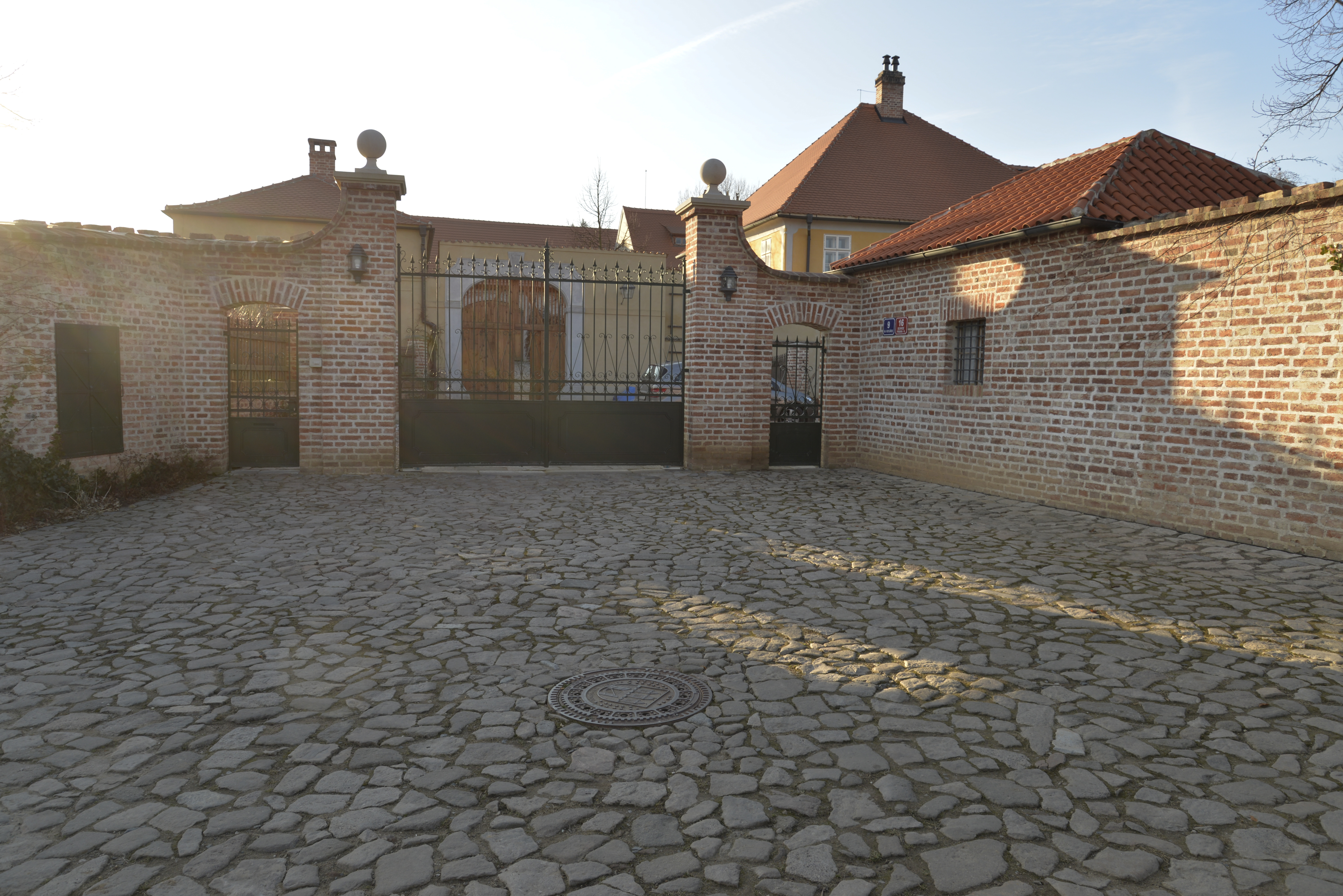 Homestead Kotlářka - entry, Na Kotlářce 16/9, Dejvice, Praha